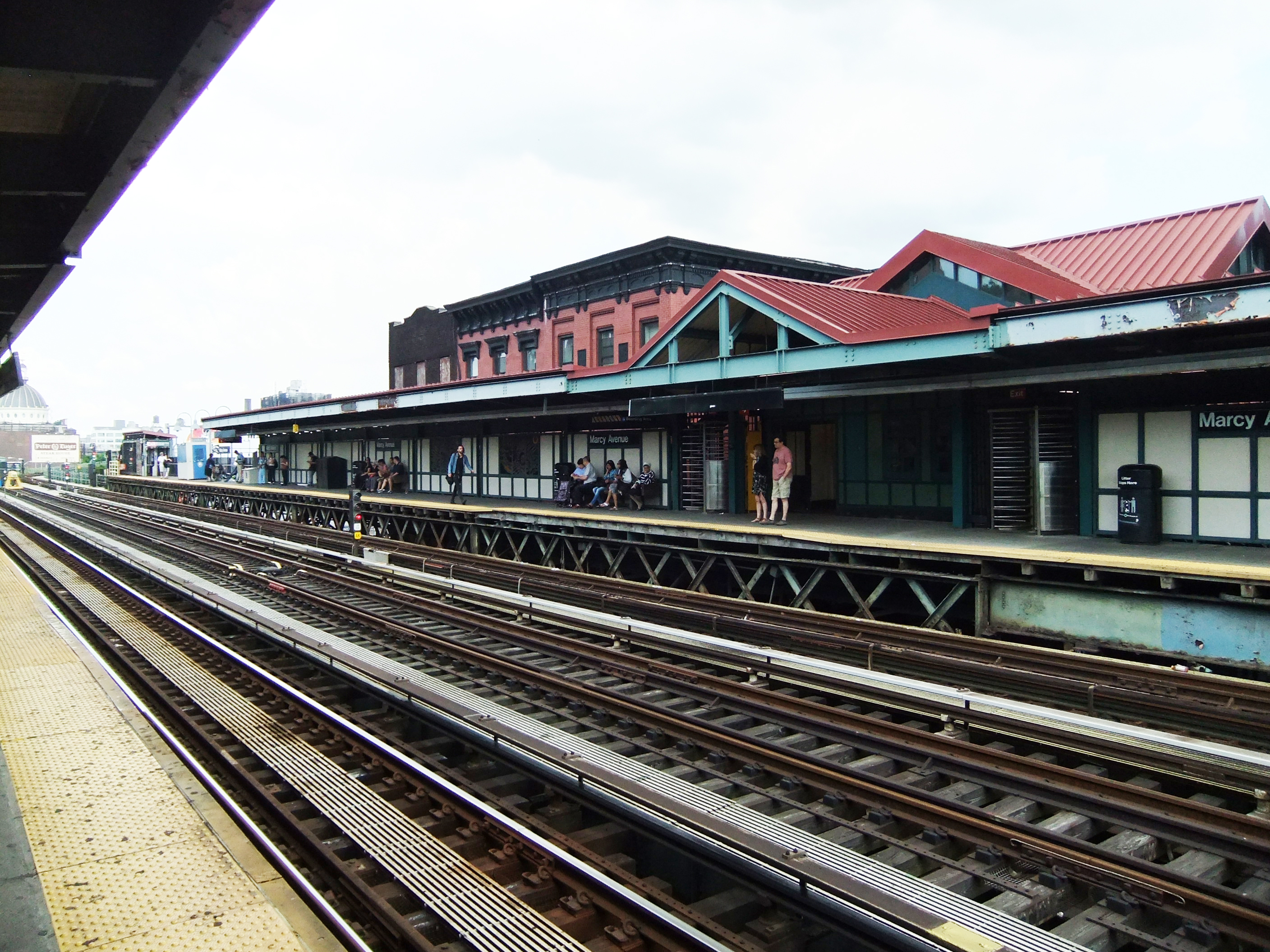 Manhattan bound platform at the Marcy Avenue J/M/Z station